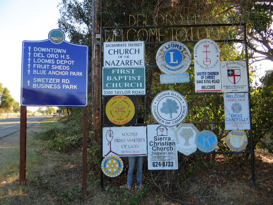 Welcome to Loomis, California